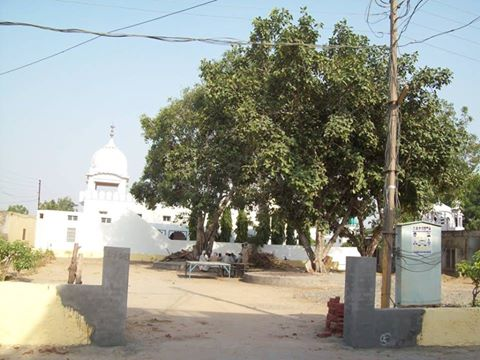 Holy temple and center of village